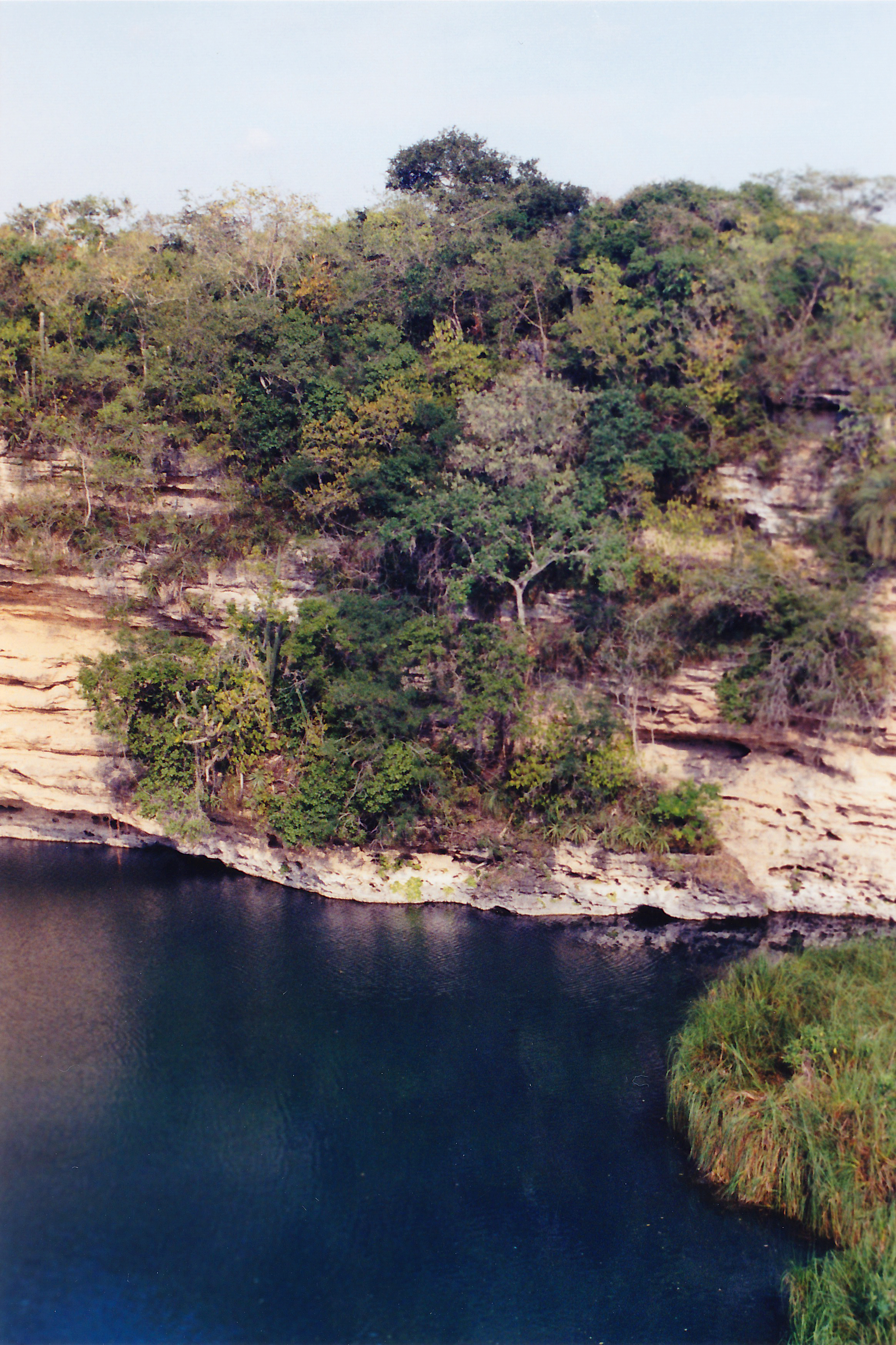 El Zacatón, a cenote (water-filled sinkhole) with free floating grass island (lower right), Municipality of Aldama, Tamaulipas, Mexico (22.9933°N, 98.1655°W, 209 m.). Photographed on 26 October 2004 by William L. Farr. This image was originally photographed with film and later scanned from a print.